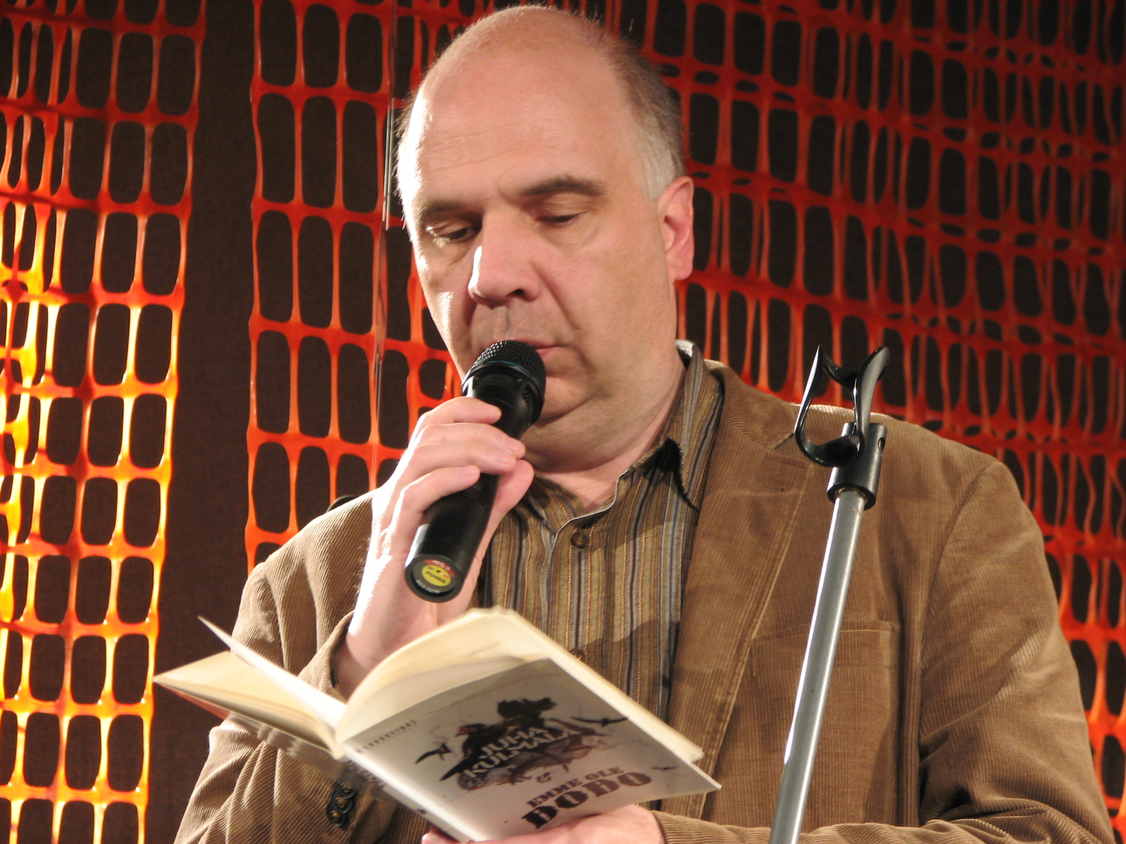 Finnish poet Juha Kulmala performing in literary festival HeadRead 2011